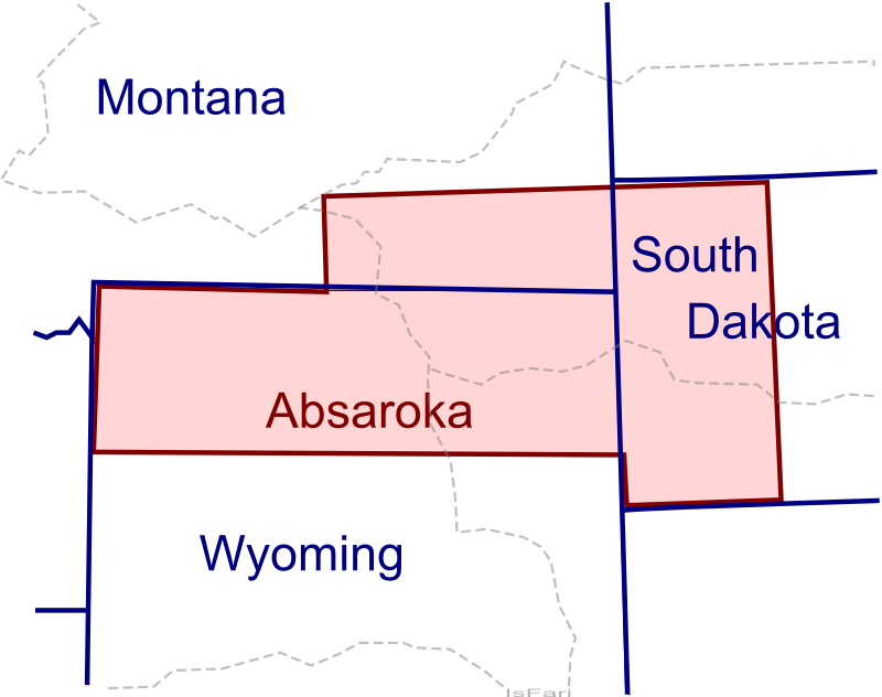 outline map of the 1939 proposed US state Absaroka, partly covering Montana, South Dakota and Wyoming